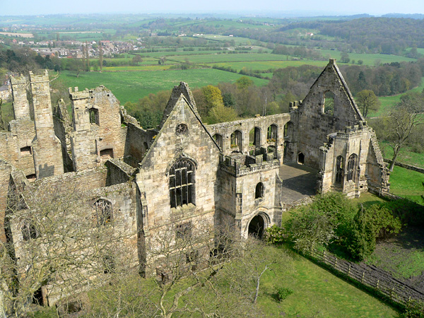 Wingfield Manor. The view from the tower at Wingfield Manor, looking North to North East with the village of South Wingfield in the background. Little known, Wingfield Manor is a huge grand ruin of a country mansion built in 1440 by Ralph Cromwell and is one of the many places Mary Queen of Scots was imprisoned. It sits atop a small hill over looking the valley below and is quite imposing on the landscape. The ruin is looked after by English Heritage.